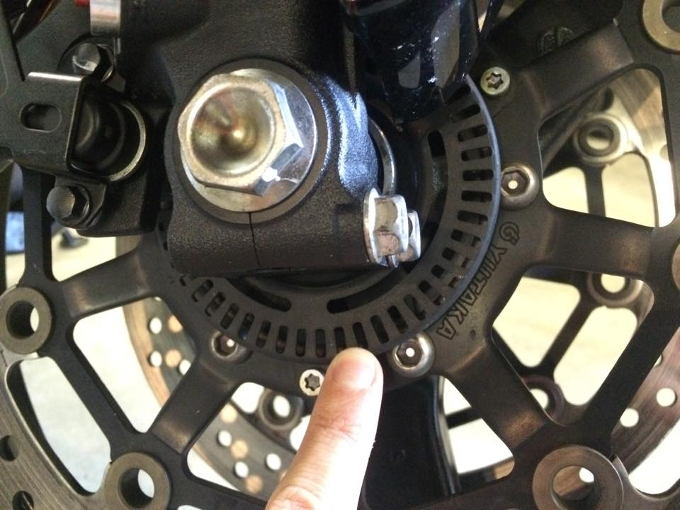 Finger points to the ABS tone ring on the right side, of the front wheel. There is also the same tone ring on the right side of the rear wheel. There are no ABS tone rings on the left side of the wheels, only the right. You can tell if a CBR600RR has ABS by seeing if these rings exist on the motorcycle.